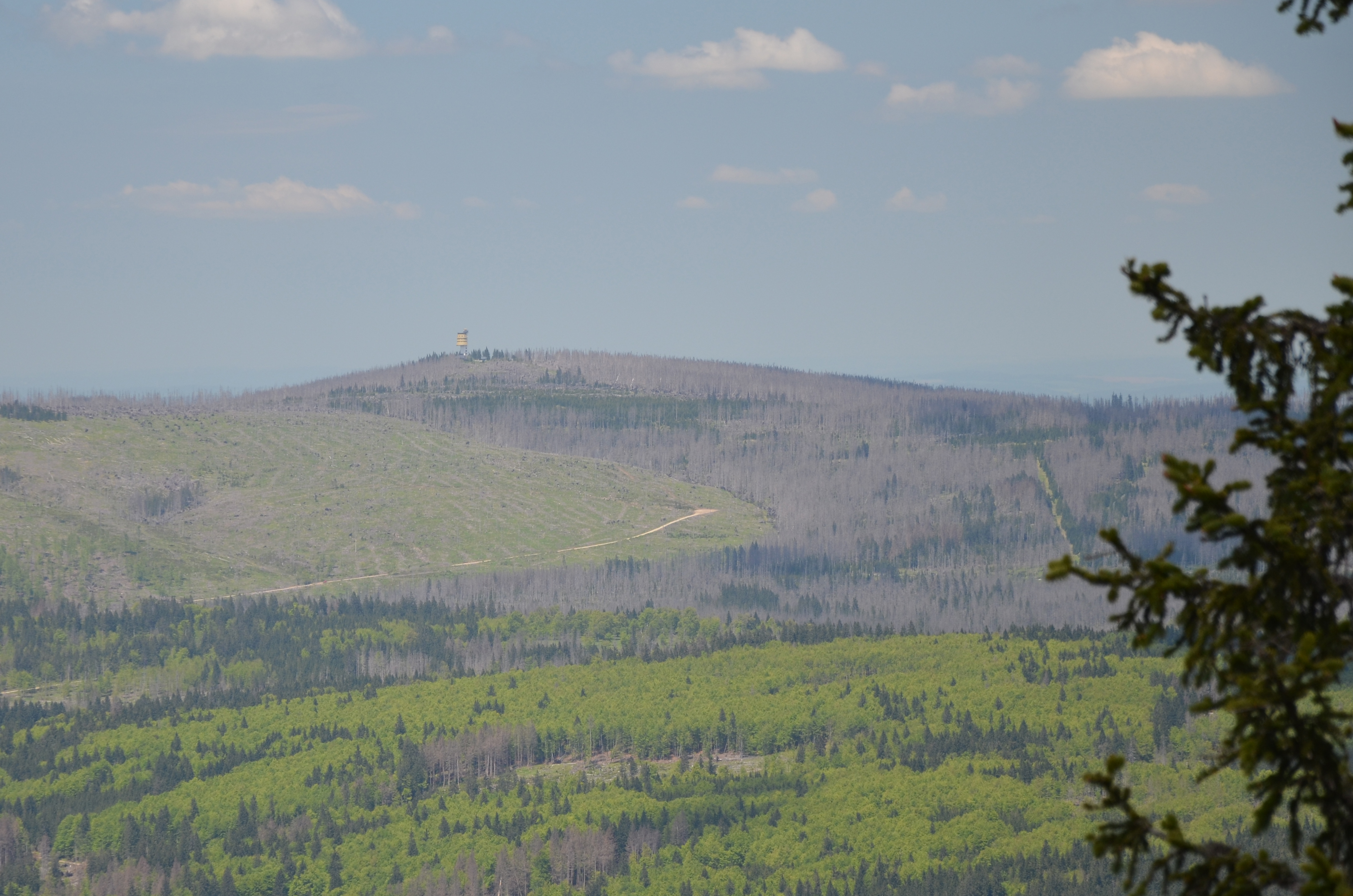 Poledník (view from Großer Rachel)